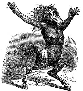 Image accompanying the entry "Orobas" in: Collin de Plancy (1863) Dictionnaire Infernal, p. 510 ; Misrepresented as "Kelpie" in The World Guide to Gnomes, pp. 360/361 (Crown Publisher 1978; Gramercy 2000), repr. of Thomas Keightley, Fairy Mythology (1880).